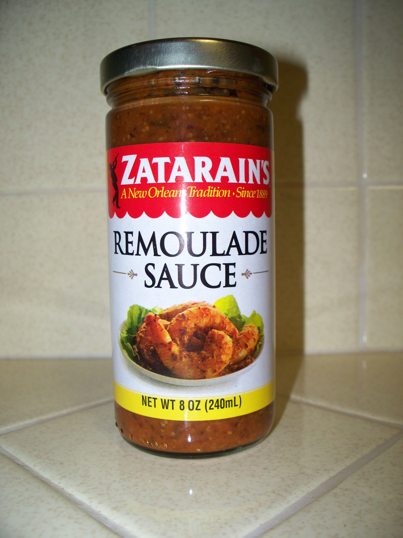 Louisiana-style remoulade sauce made by Zatarain's based out of New Orleans, LA.